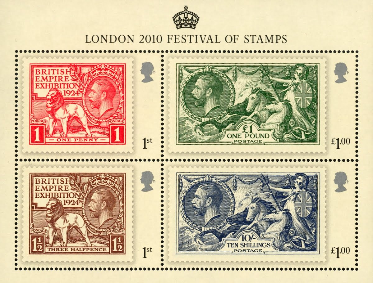 London 2010 Festival of Stamps Miniature Sheet. Produced in 2010 but includes stamps from the 1920s that are out of copyright. No other copyrightable content in the image.